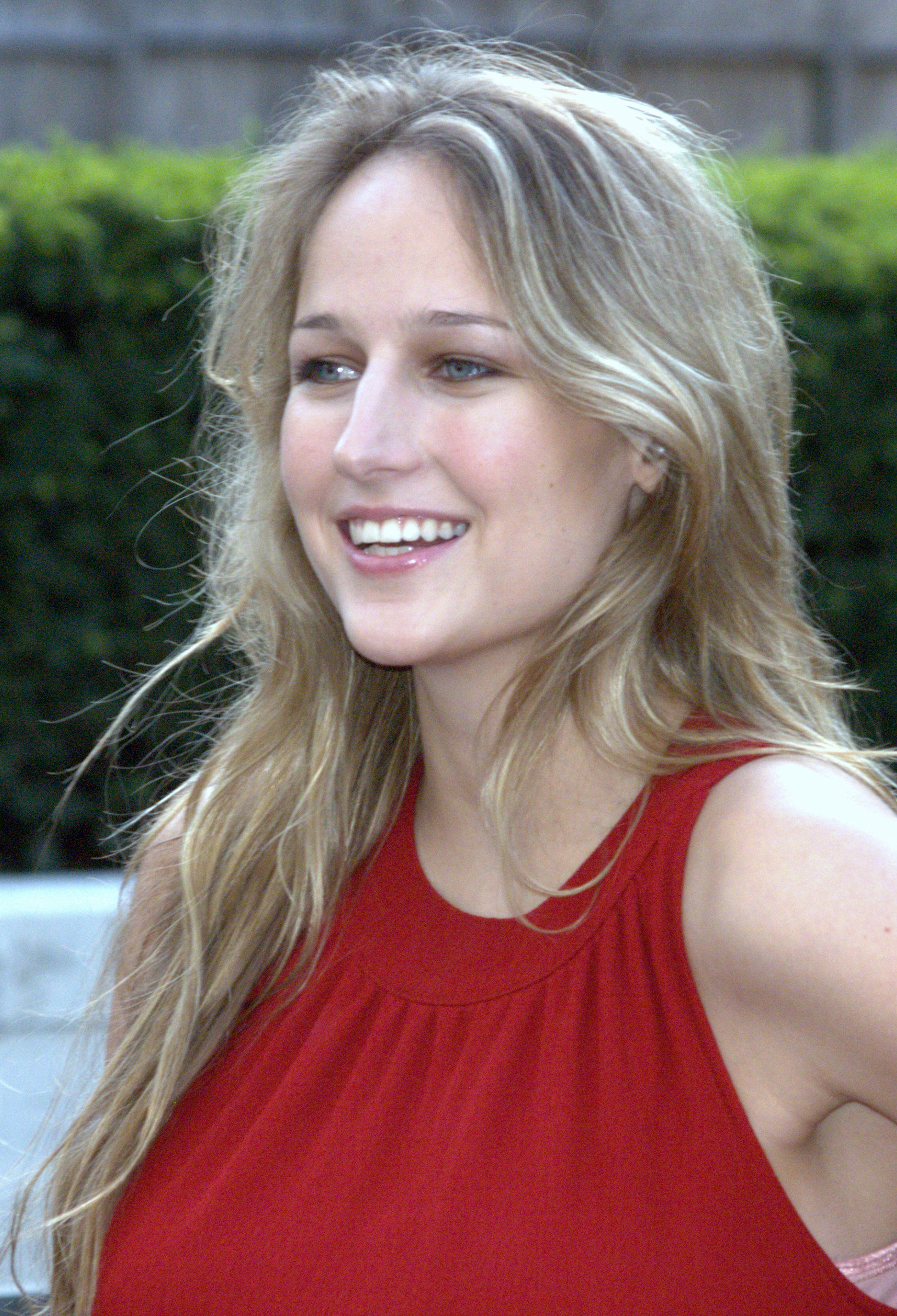 Leelee Sobieski at the 2009 premiere of the Metropolitan Opera in New York City. Photographer's blog post about event and photograph.